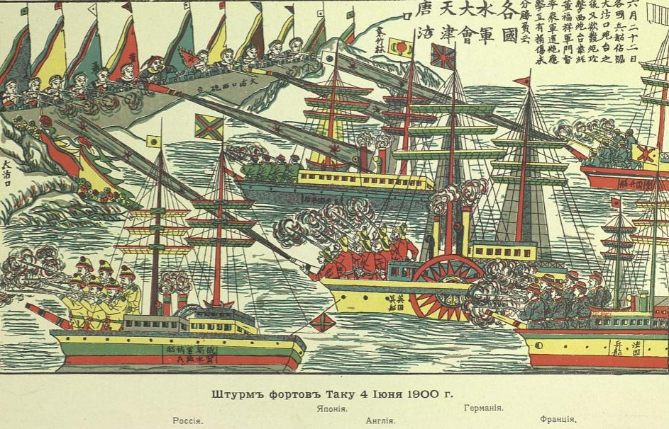 Battle of Dagu Forts (1900)